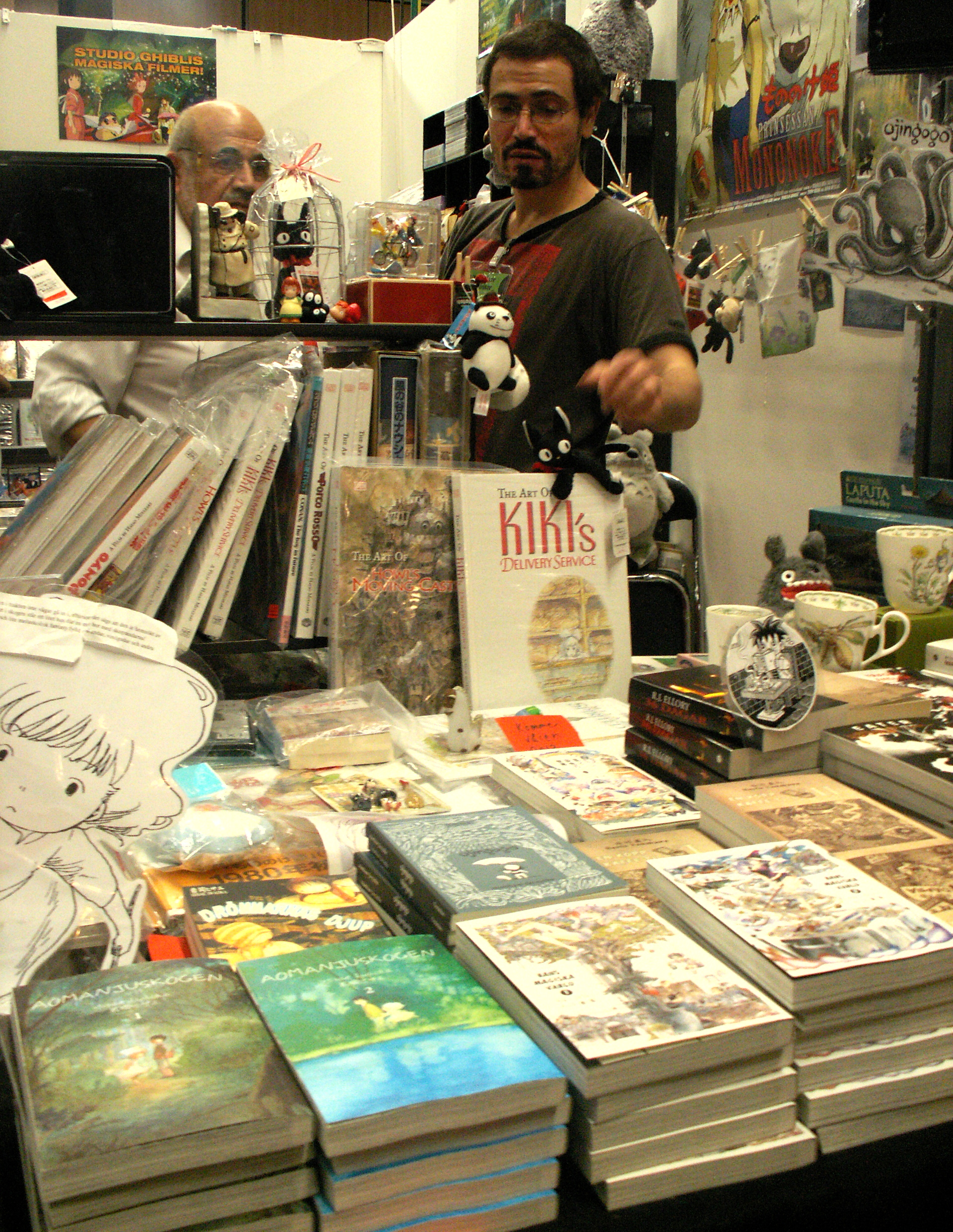 Ordbilder Media at the 2012 Göteborg book fair.